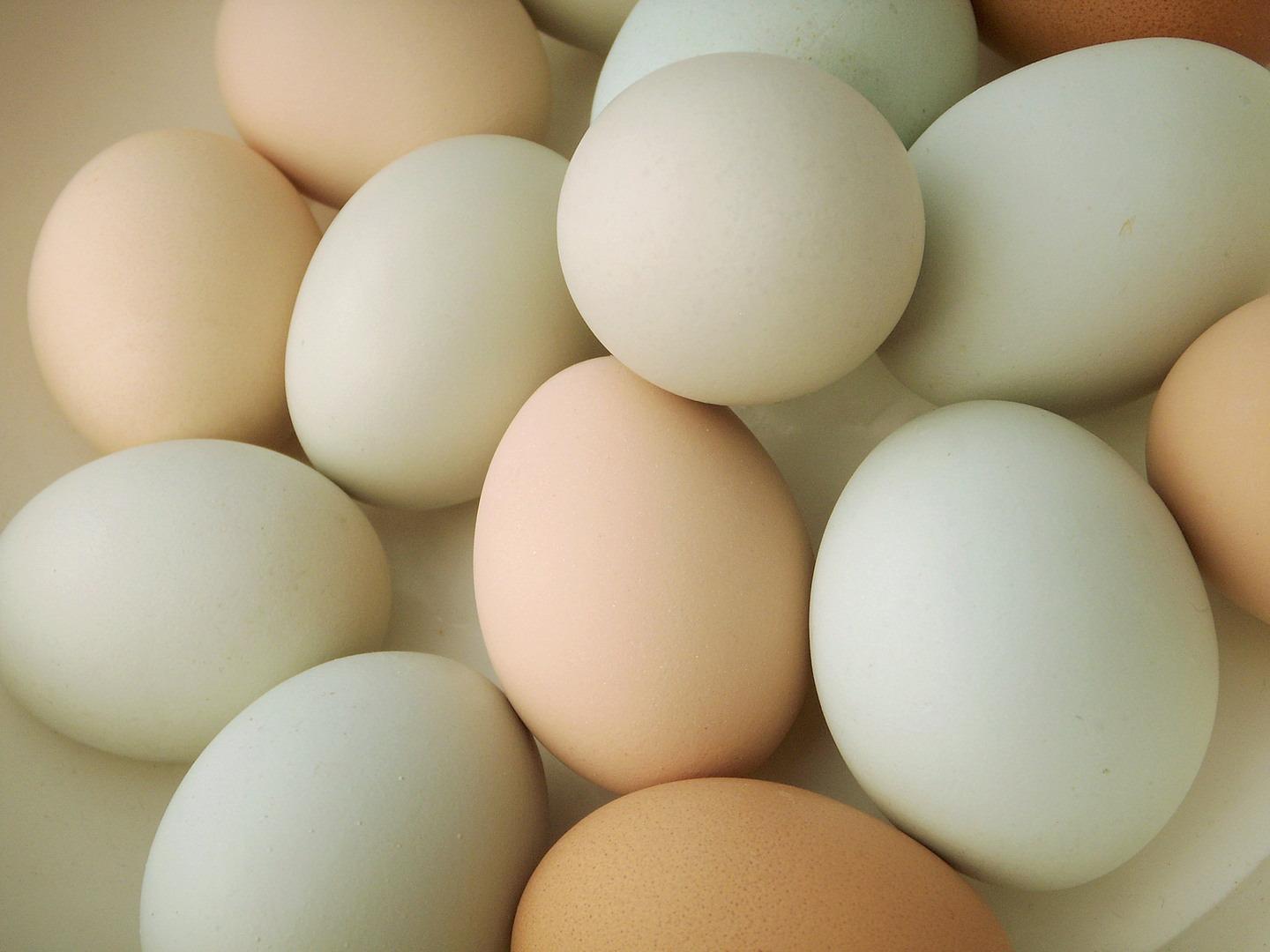 chicken eggs